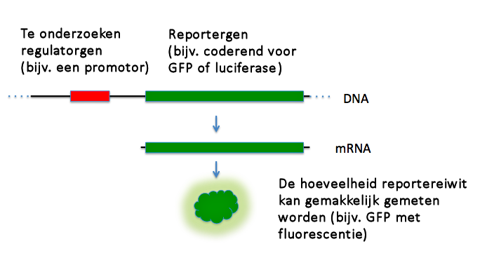 Reporter gene